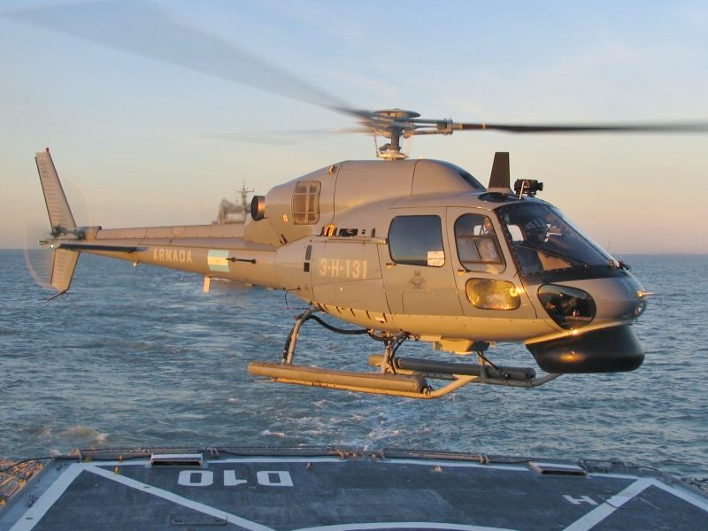 Aerospatiale AS555SN(C/N5556) 0863/3-H-131 Near Base Naval Mar del Plata